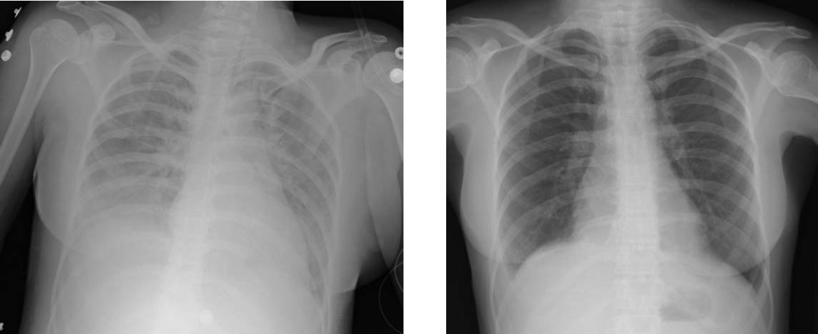 Chest X-ray of transfusion-related acute lung injury (TRALI syndrome) compared to chest X-ray of the same subject afterwards.